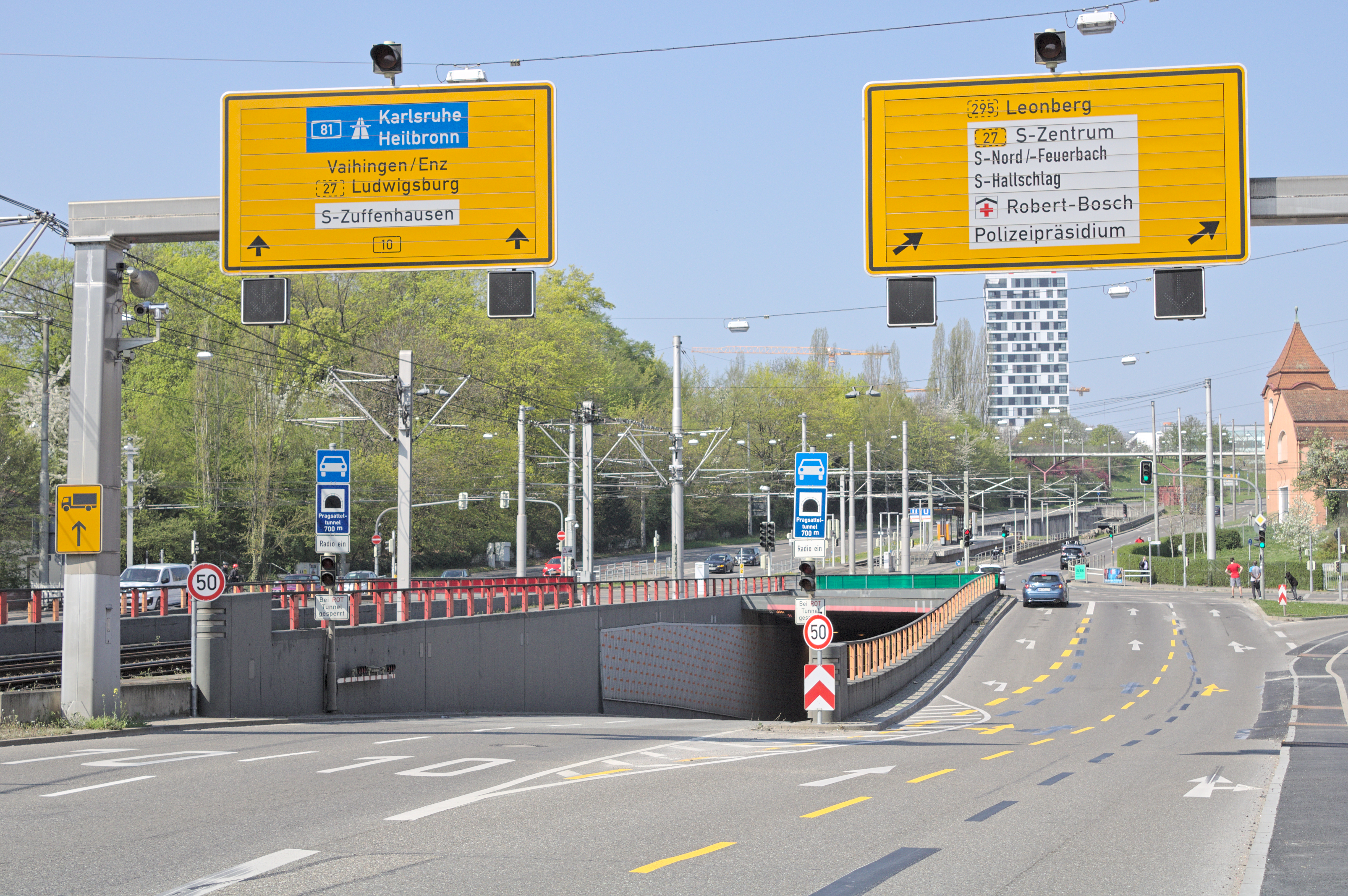 Heilbronner_Strasse_(Stuttgart) in Stuttgart